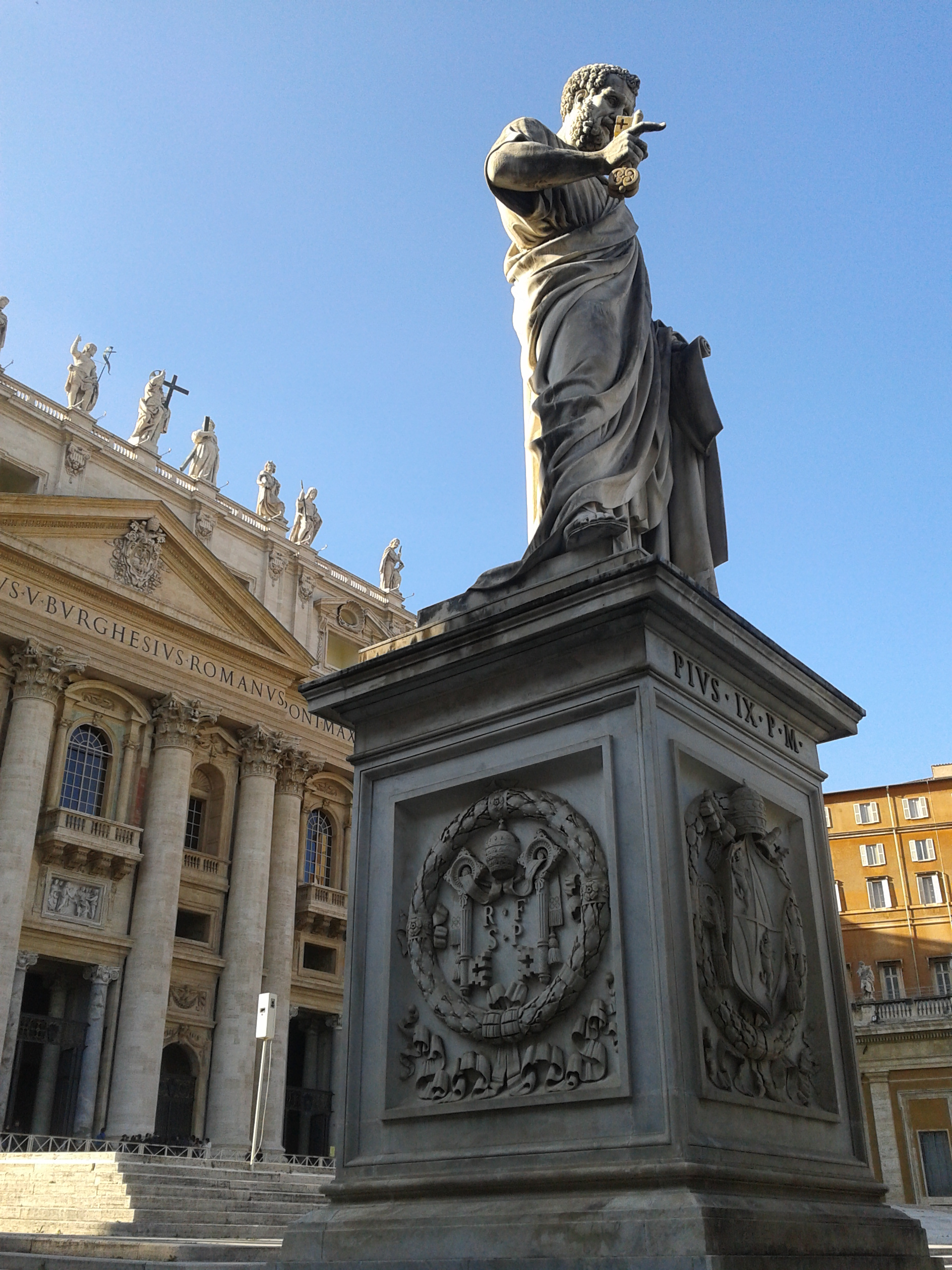 Saint Peter's statue